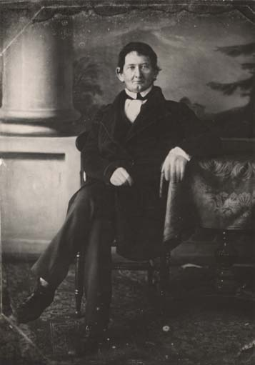 Daguerreotype of James Dellet of Claiborne, Monroe County, Alabama.